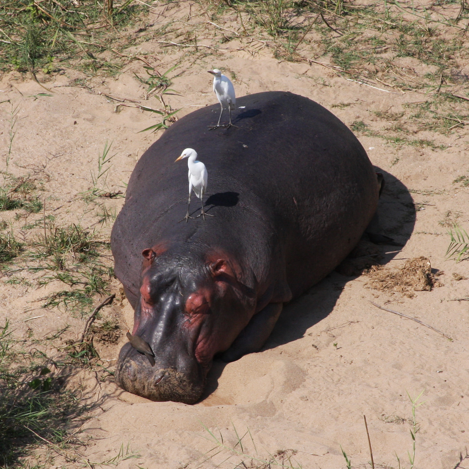 hippopotamus resting at the malelane entrance of Kruger Park in South Africa